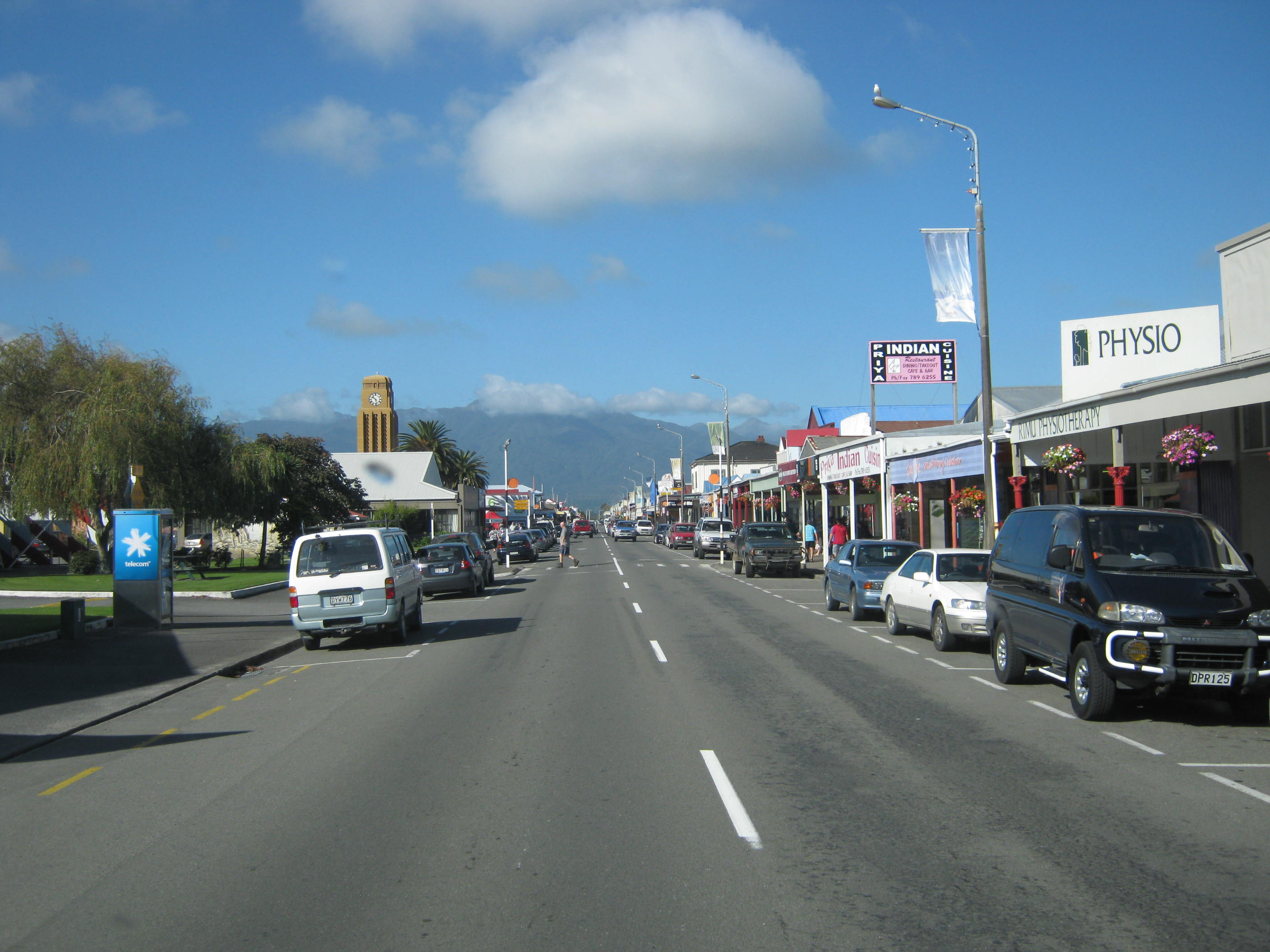 Mainroad Westport. New Zealand